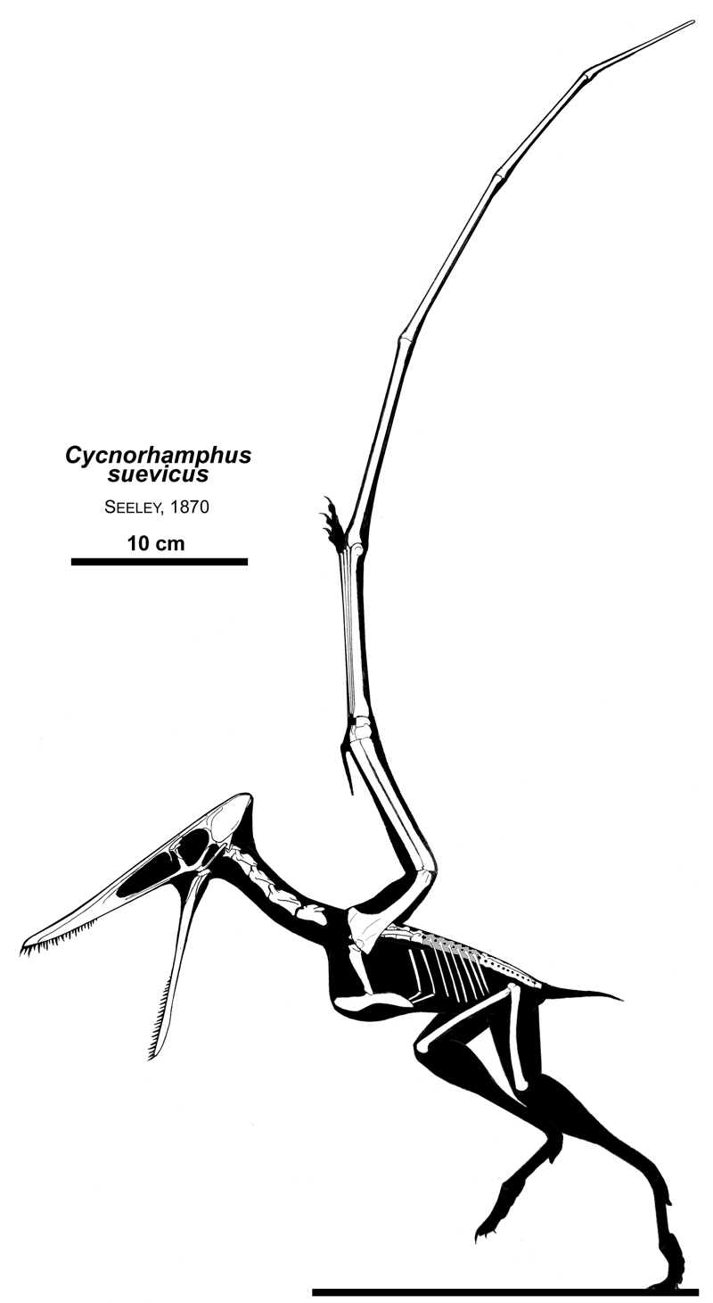 Skeletal reconstruction of Cycnorhamphus, showing known material.